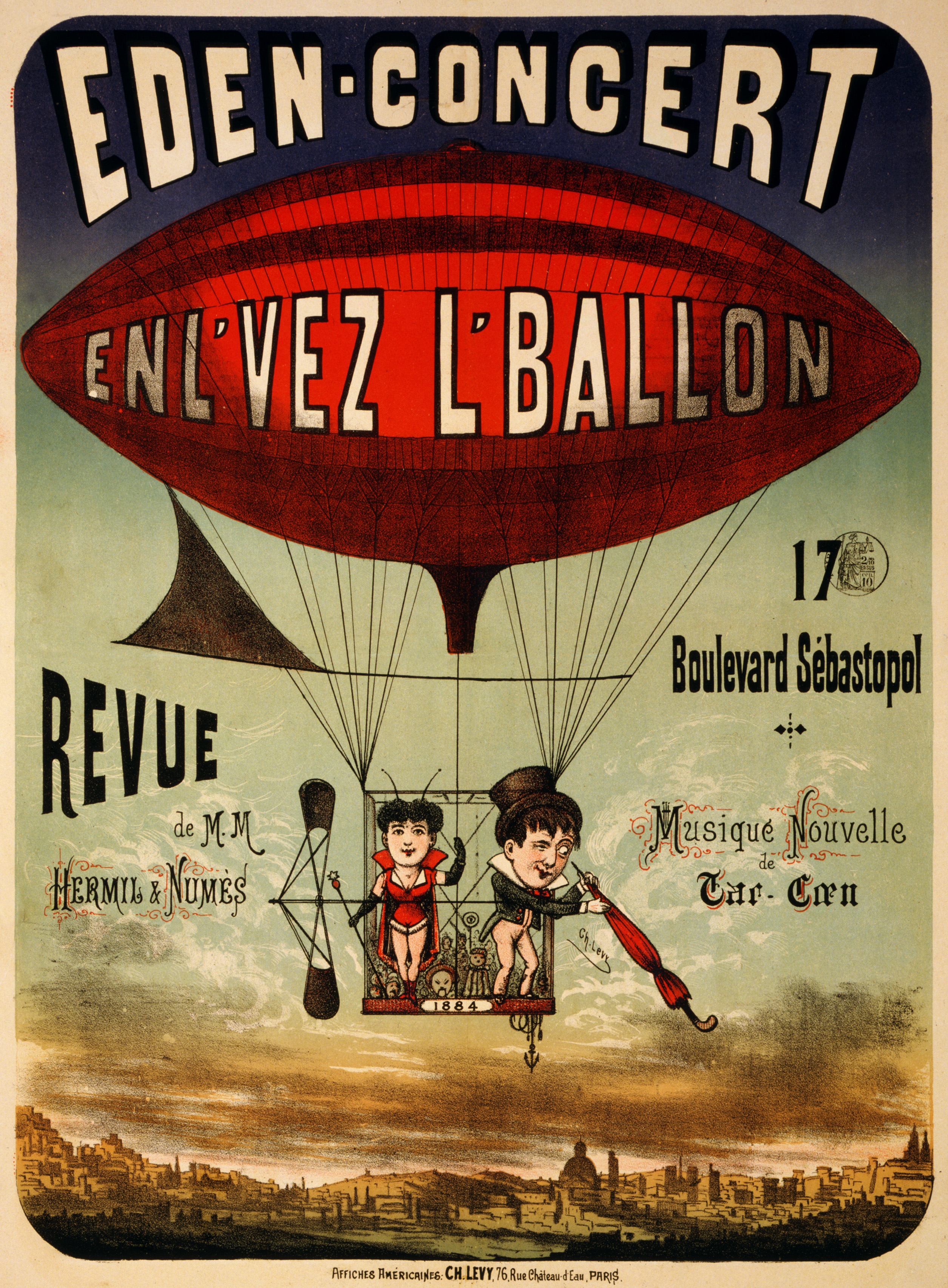 French circus poster shows two performers in the basket of an airship navigated by a rudder and a propeller. The basket bears the date 1884. Text: "Eden-concert, enl'vez l'ballon revue de M.M. Hermil & Numès, 17 boulevard Sébastopol, musique nouvelle de Tar-Caen."